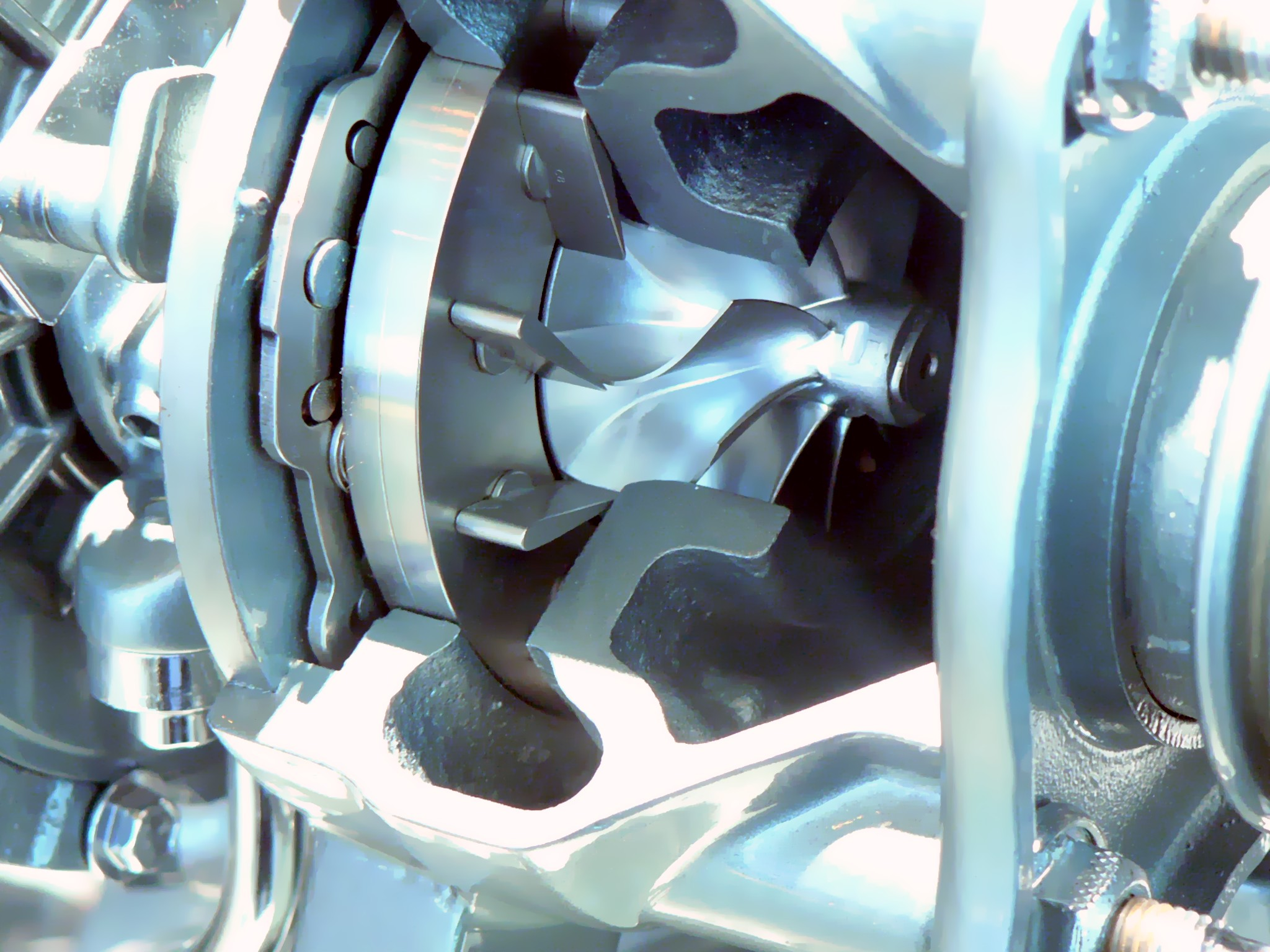 Variable geometry turbine of a turbo on display at Mondial de l automobile de Paris (October 2006)